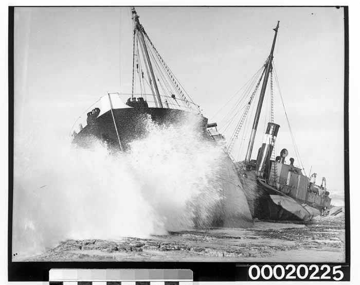 This photo is part of the Australian National Maritime Museum’s Samuel J. Hood Studio Collection. Sam Hood (1872-1953) was a Sydney photographer with a passion for ships. His 72-year career spanned the romantic age of sail and two world wars. The photos in the collection were taken mainly in Sydney and Newcastle during the first half of the 20th century. Help solve the mystery of this photo. If you can identify a person, ship or landmark, write the details in the Comments box below. Thank you for helping caption this important historical image. Photographer: Samuel J. Hood Studio Collection Object no. 00020225